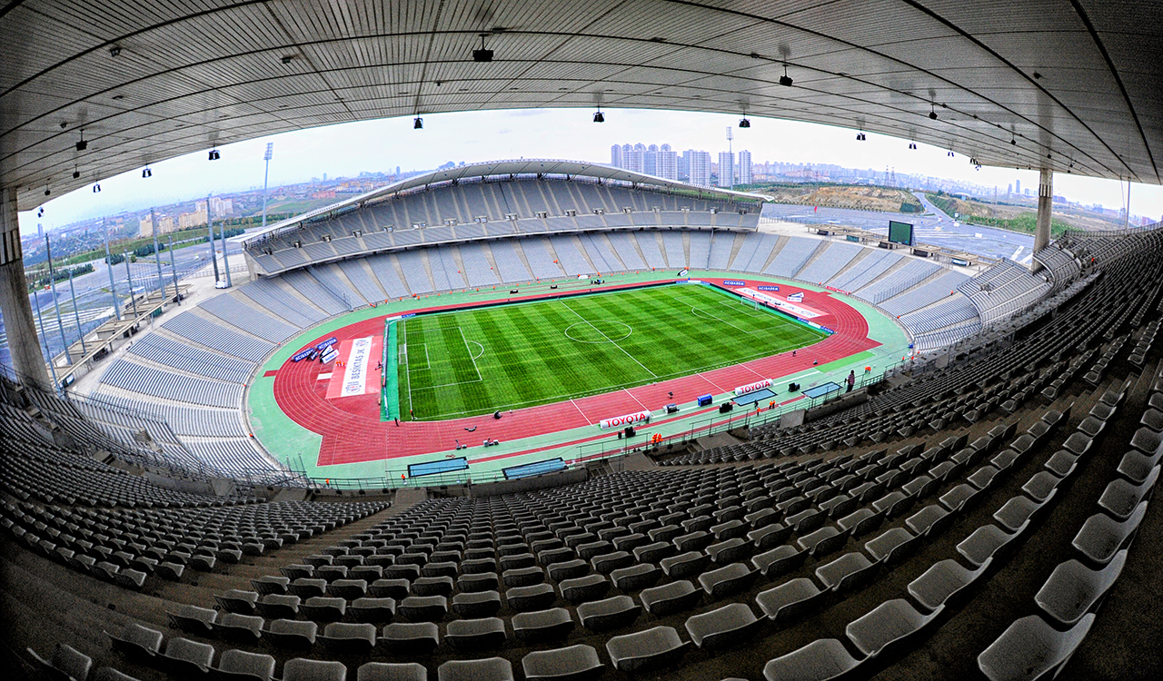 Atatürk Olympic Stadium in Istanbul, Turkey